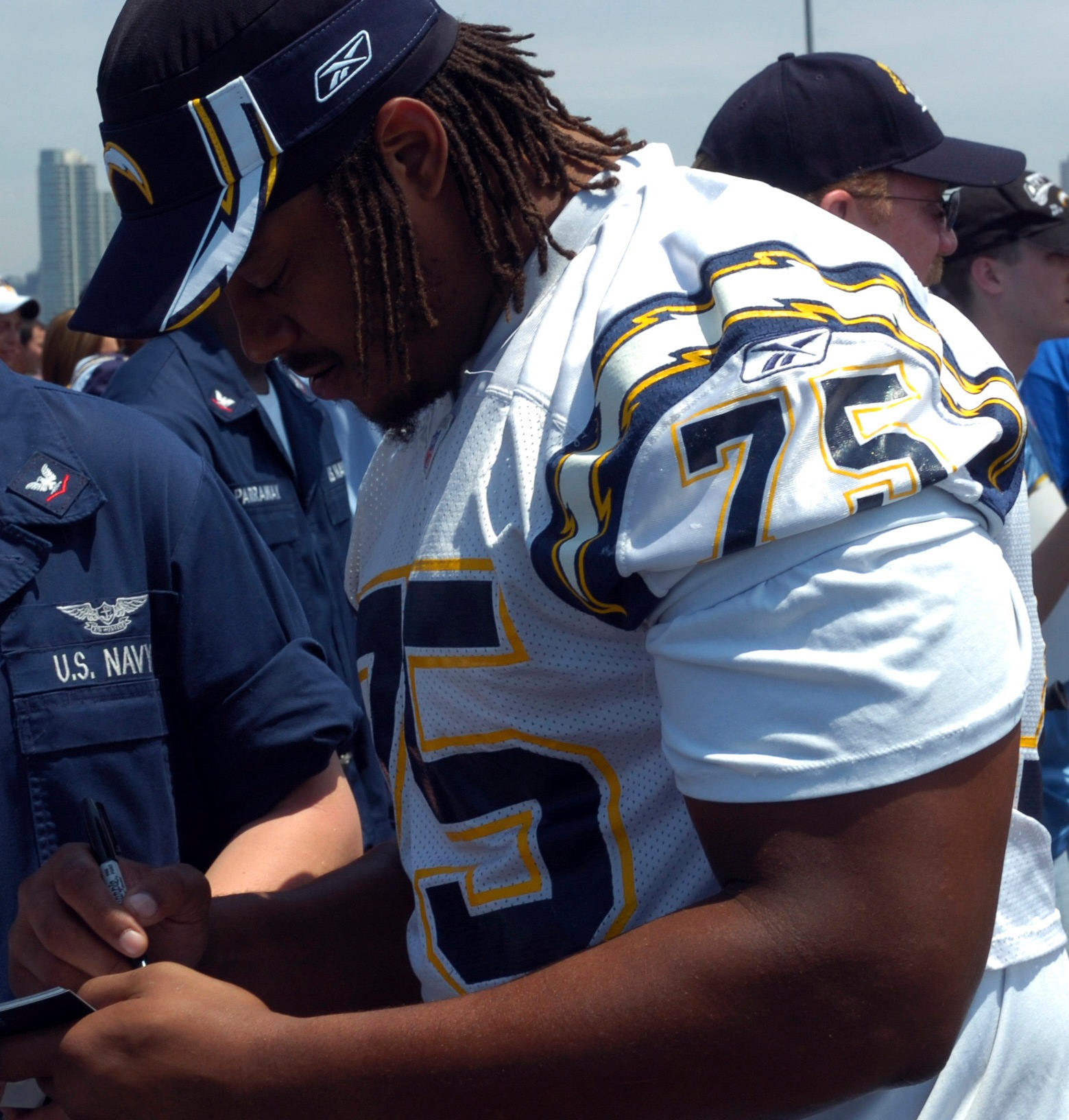 Offensive Tackle for the National Football League San Diego Chargers Leander Jordan (75) signs an autograph for Aviation Electrician's Mate 3rd Class Jerimy Holt during a visit aboard USS Ronald Reagan (CVN 76) in San Diego, Calif., Aug. 11, 2006. The Chargers held practice on the flight deck of the Navy's newest nuclear-powered aircraft carrier in preparation for their first pre-season game against the Green Bay Packers. (U.S. Navy photo by Mass Communication Specialist 3rd Class Christopher D. Blachly) (Released)